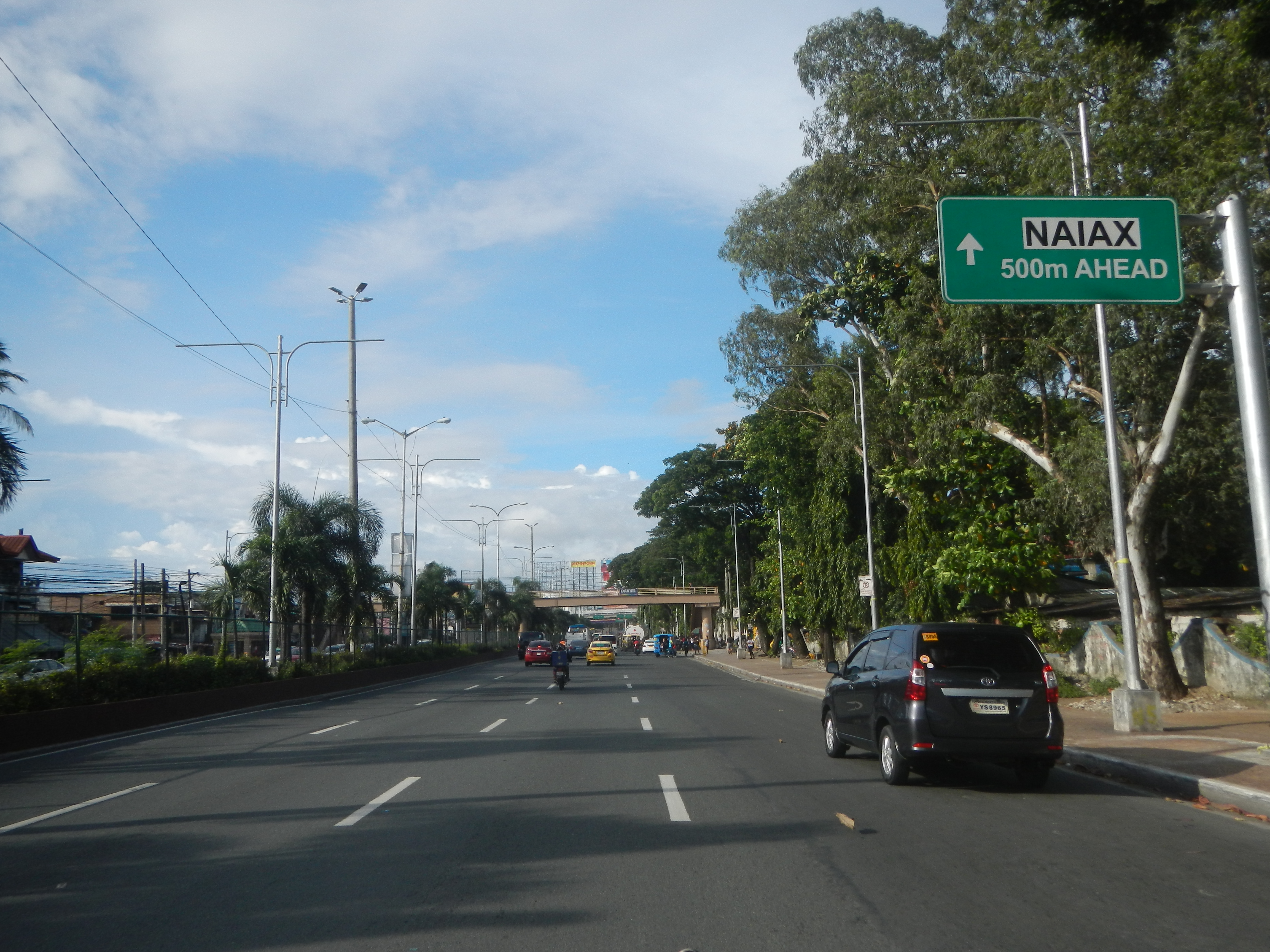 Ninoy Aquino Avenue from Dr. A. Santos Avenue (San Dionisio, San Isidro, San Antonio and BF Homes, Parañaque City) Sucat Road 4°27'58"N 121°1'0"E Dr. A. Santos Avenue List of barangays of Metro Manila, Legislative districts of Parañaque 1st District, Districts and barangays, Barangays San Dionisio 14°29'2"N 120°59'33"E San Isidro, Parañaque San Isidro 14°28'1"N 121°0'40"E San Antonio 14°27'56"N 121°1'52"E BF Homes Parañaque, Parañaque City List of barangays of Metro Manila Pasay City towards NAIA Road NAIA Expressway Phase 1 (Skyway) and Phase 2 (NAIAx) (Note: Judge Florentino Floro, the owner, to repeat, Donor Florentino Floro of all these photos hereby donate gratuitously, freely and unconditionally Judge Floro all these photos to and for Wikimedia Commons, exclusively, for public use of the public domain, and again without any condition whatsoever).